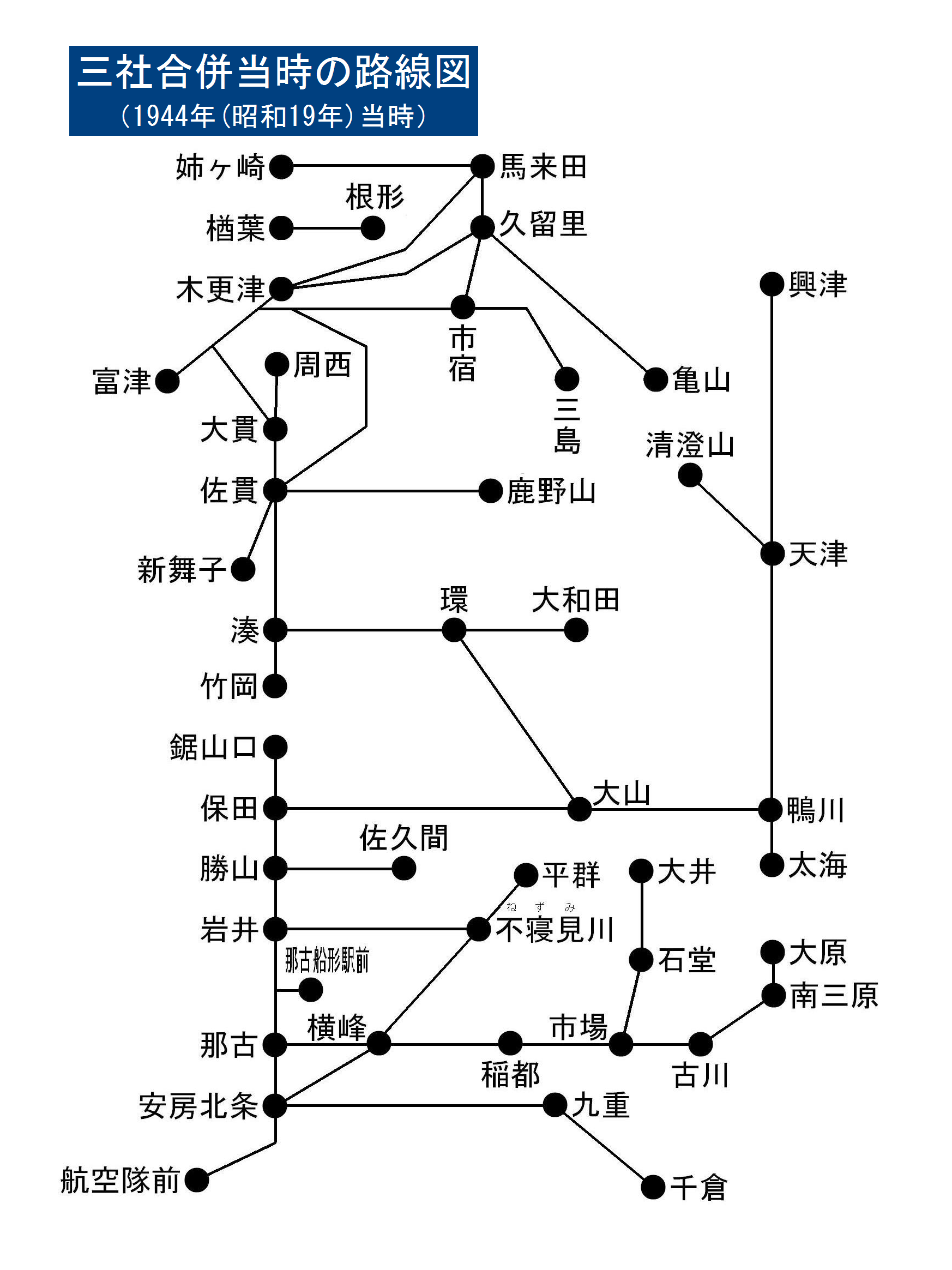 The Nitto Kotsu route map of 1944.